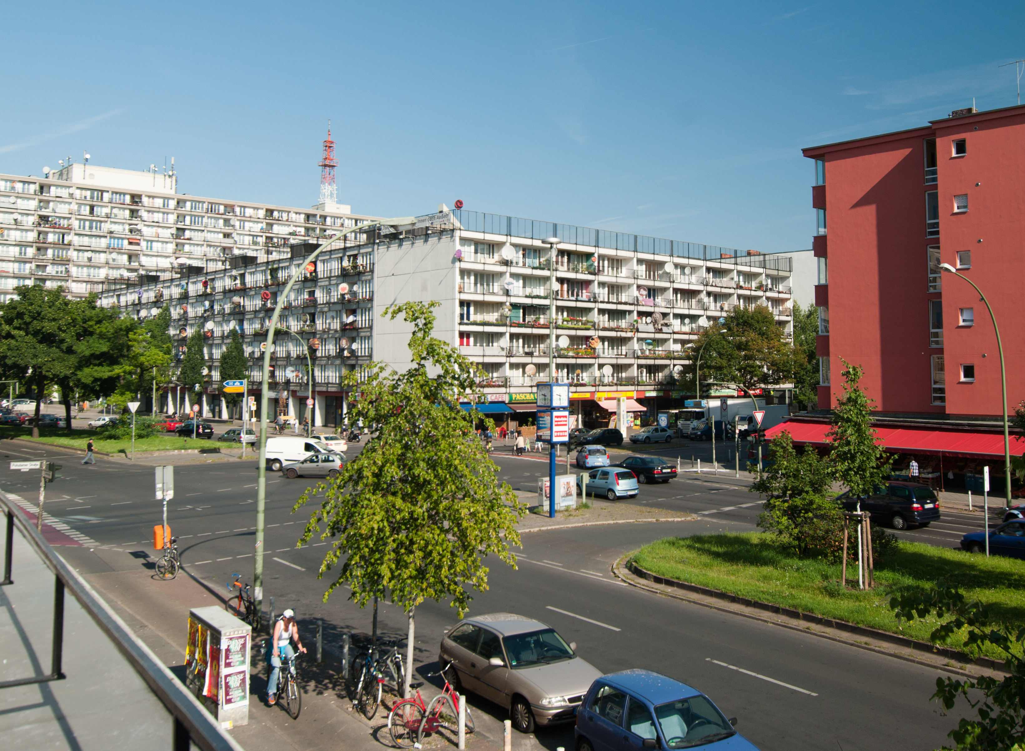 Corner Goebenstraße/Postdamer Straße/Yorckstraße in Berlin-Schöneberg.